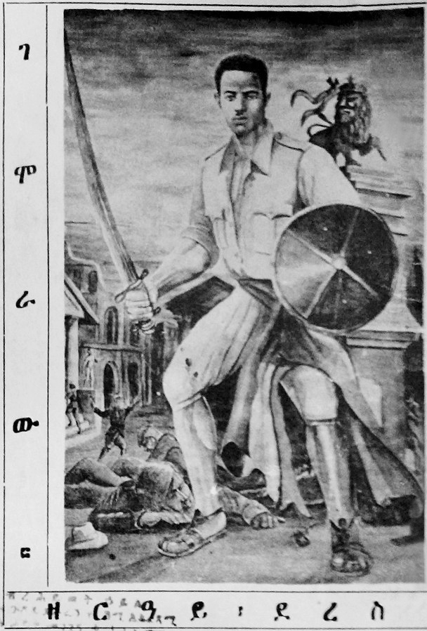 Zerai Deres lionized